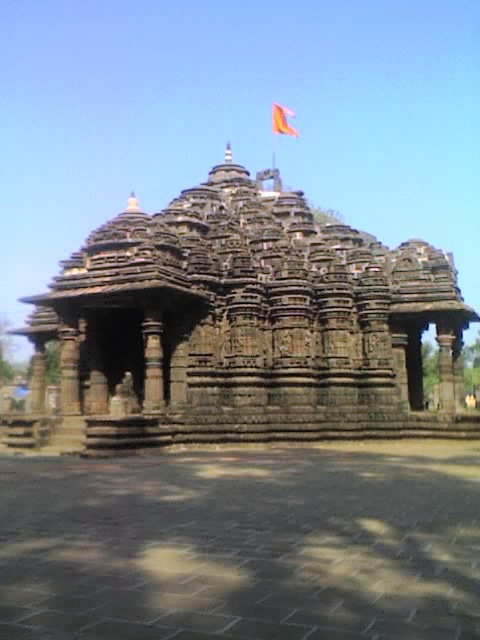 Temple of Ambarnath